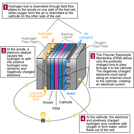 Diagram explaining PEM fuel cells. Retrieved from - JustinWick 21:27, 16 January 2006 (UTC)